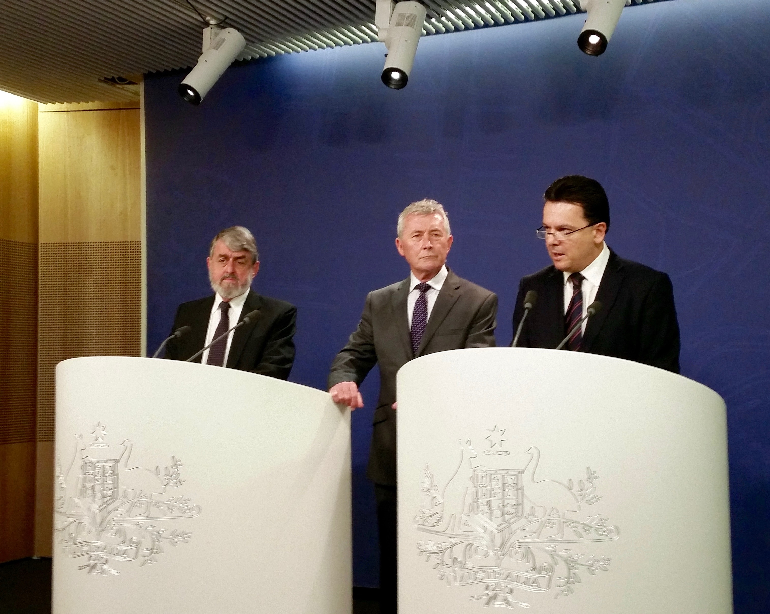 Senator Nick Xenophon with Bernard Collaery and Nicholas Cowdery QC in 2015 calling for a royal commission into the Australia–East Timor spying scandal.